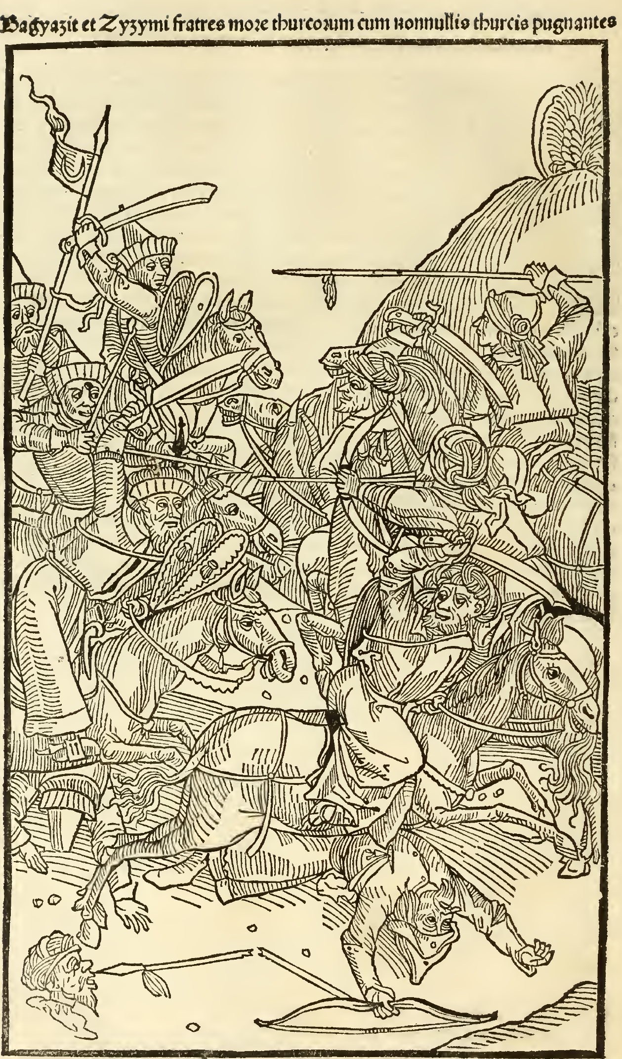 Text "Bagyazit et Zyzymi fratres mo:e tburcorum cum honnullio thurcis pugnantes"